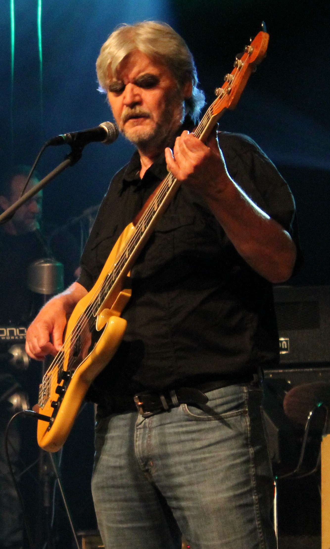 Pavel Pelc, bass guitarist and vocalist of czech rock band Progres 2, Brno, Czech Republic - OpenStreetMap(Info)